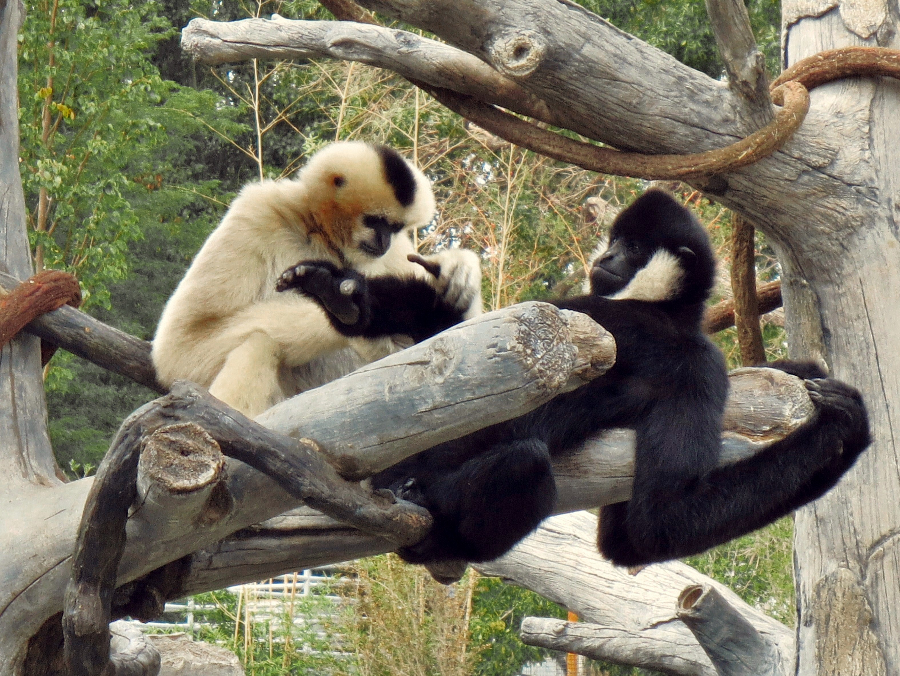 Northern white-cheeked gibbons (Nomascus leucogenys); female grooming a male. Denver Zoo, Denver, Colorado.